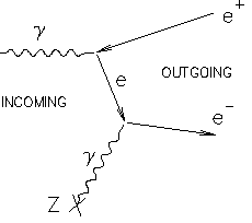 Electron-Positron nuclear Pair production Feynman Diagram